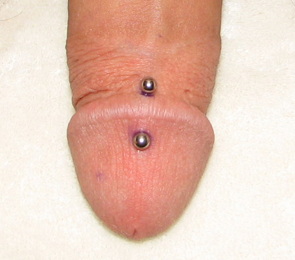 A centrally placed single dydoe.